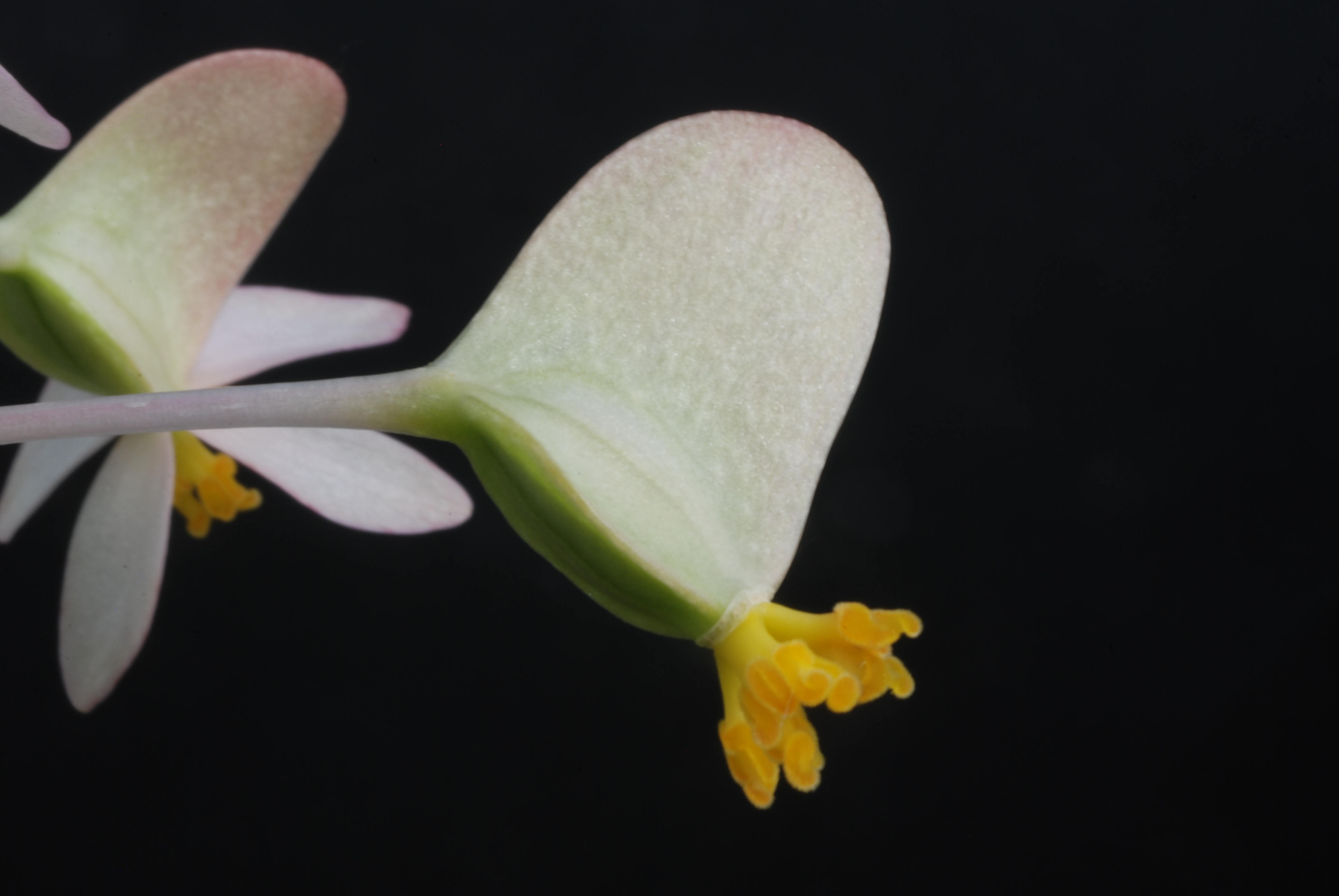 Begonia majungaensis Guillaumin var. majungaensis Family : Begoniaceae Accessions :20071188-45 National Botanical Garden of Belgium Meise Botanic Garden Native nameNationale Plantentuin van België / Jardin Botanique National de BelgiqueLocationDomein van Bouchout / Domaine de BouchoutNieuwelaan 381860 MeiseBelgiumCoordinates50° 55′ 42.28″ N, 4° 19′ 36.78″ E Established1826: established, 1870: became publicly owned,Web page control : Q3052500 VIAF: 159423716 ISNI: 0000 0001 2195 7598 LCCN: n50078011 NLA: 35880480 SELIBR: 120680 WorldCat institution QS:P195,Q3052500 Created under the volunteer photographer program at the National Botanical Garden of Belgium.